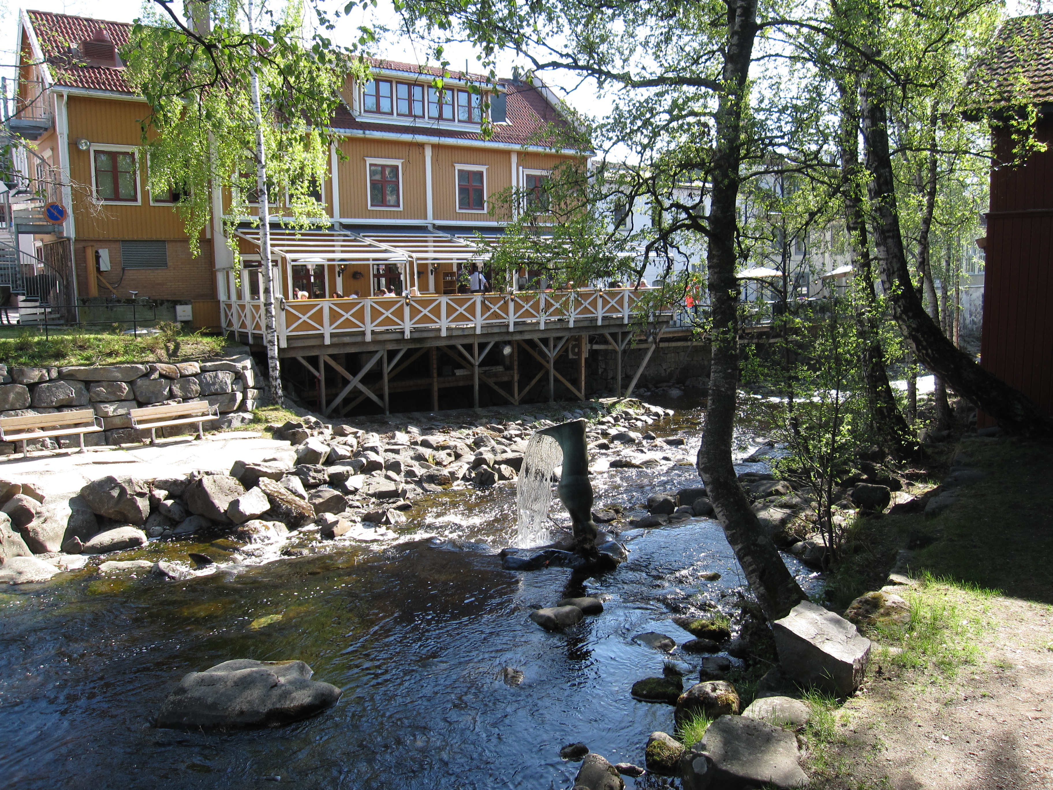 The Mesna River, running through central Lillehammer, has provided the basis for several small industries through the years. Today it provides a charming view from the restaurants and cafes lining it.